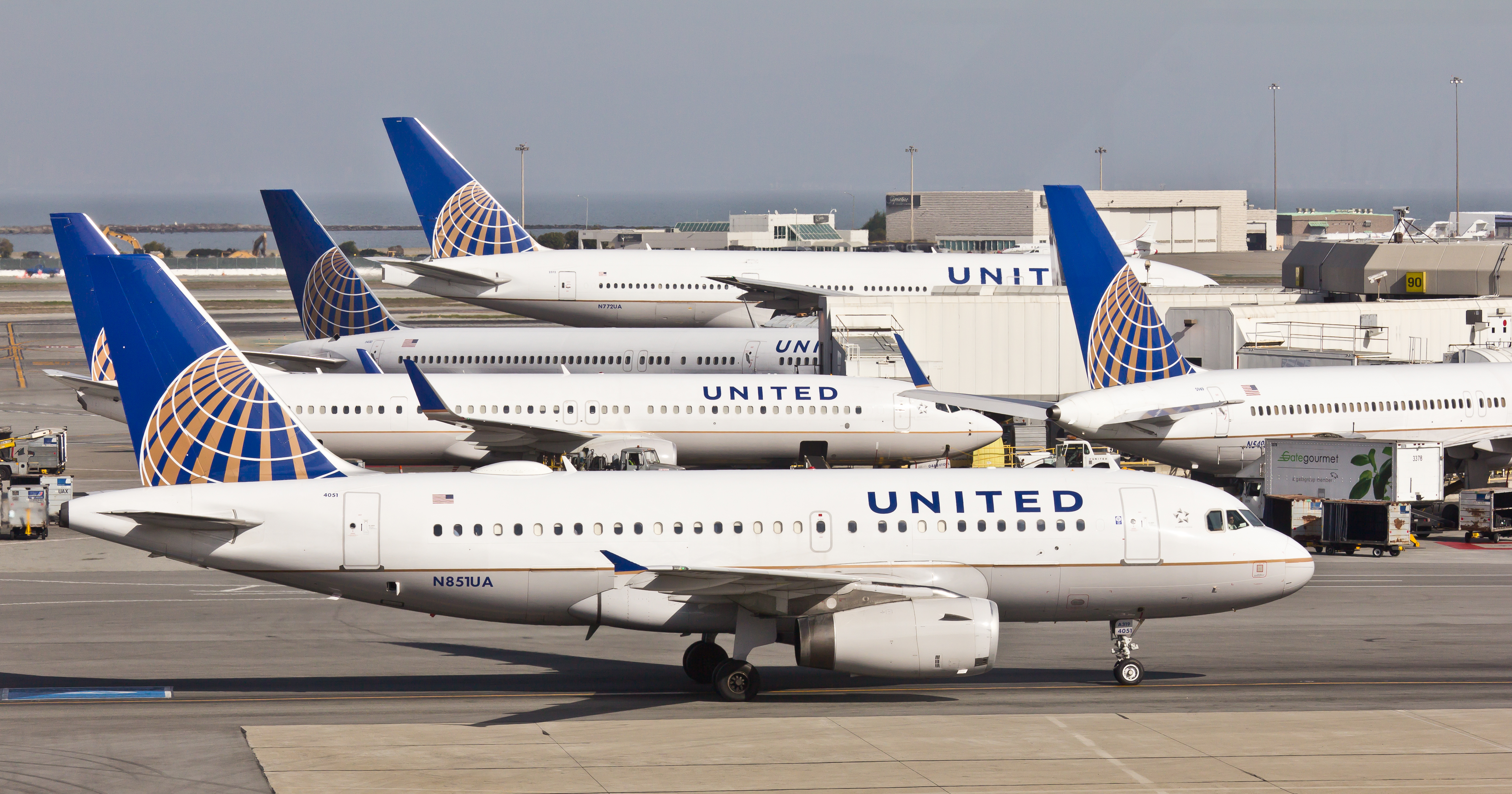 United Airlines - N851UA -Airbus A319 - San Francisco International Airport